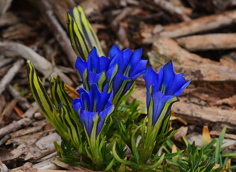 An autumn flowering gentian which is found in the alpine meadows of Sichuan and the borderlands of South Gansu/Xizang above 2,500m.